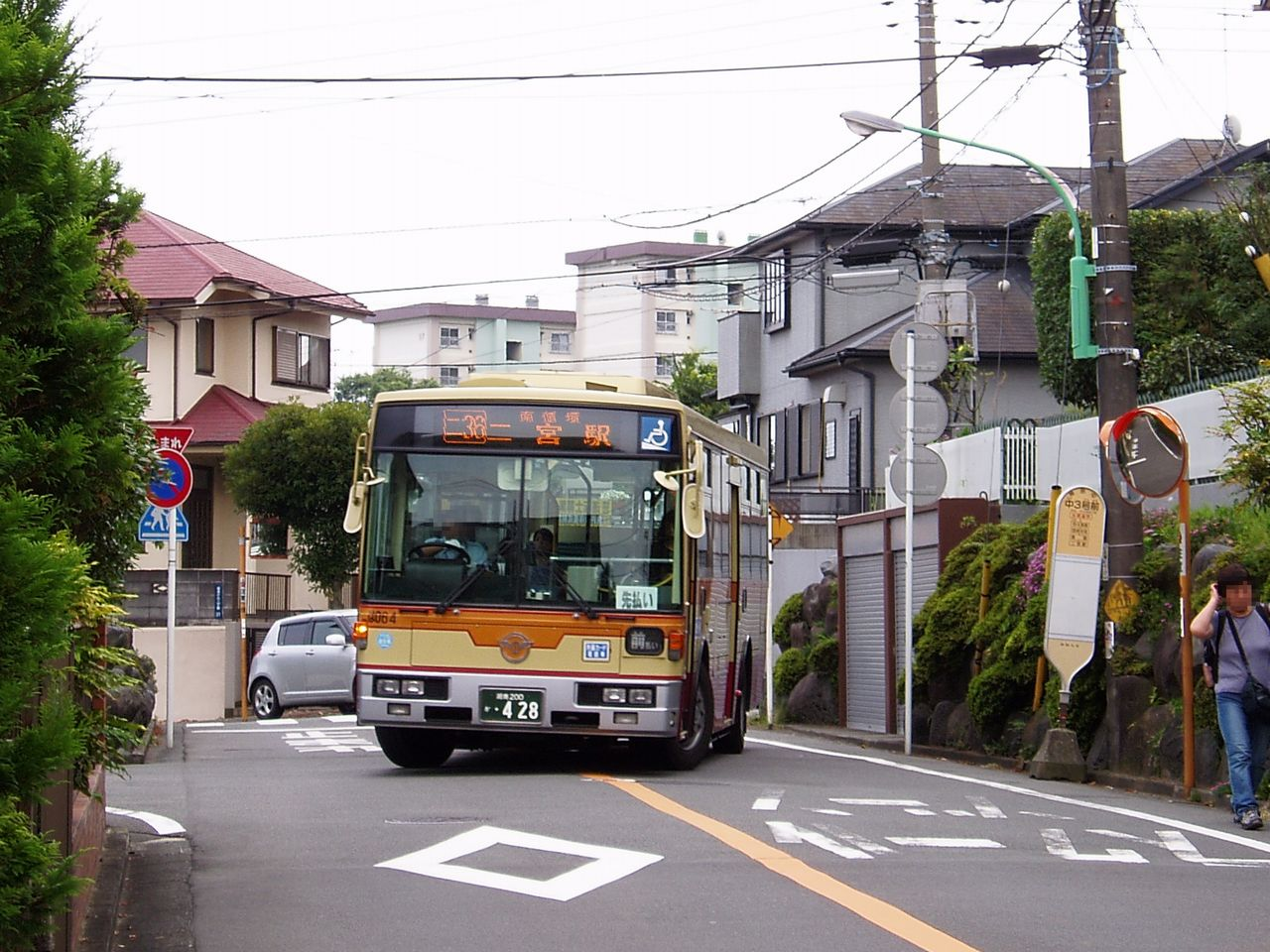 Kanagawa Chuo Kotsu Ha064 Nissan Diesel KL-UA452MAN at Ninomiya Town,Kanagawa